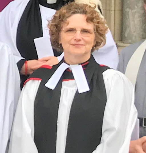 Ecumenical Service at St John's Cathedral Norwich November 2018